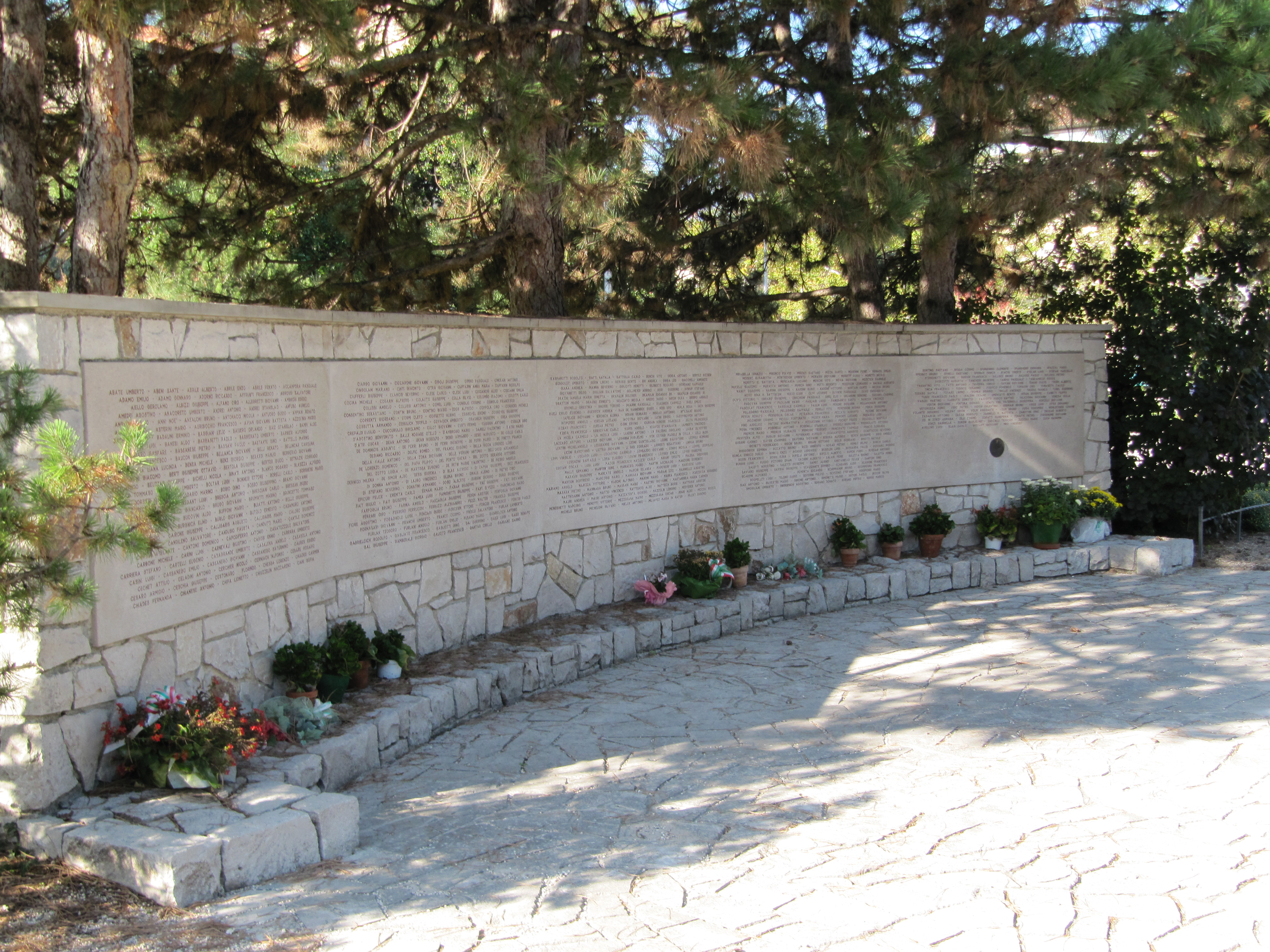 deported memorial, Gorizia, Italy